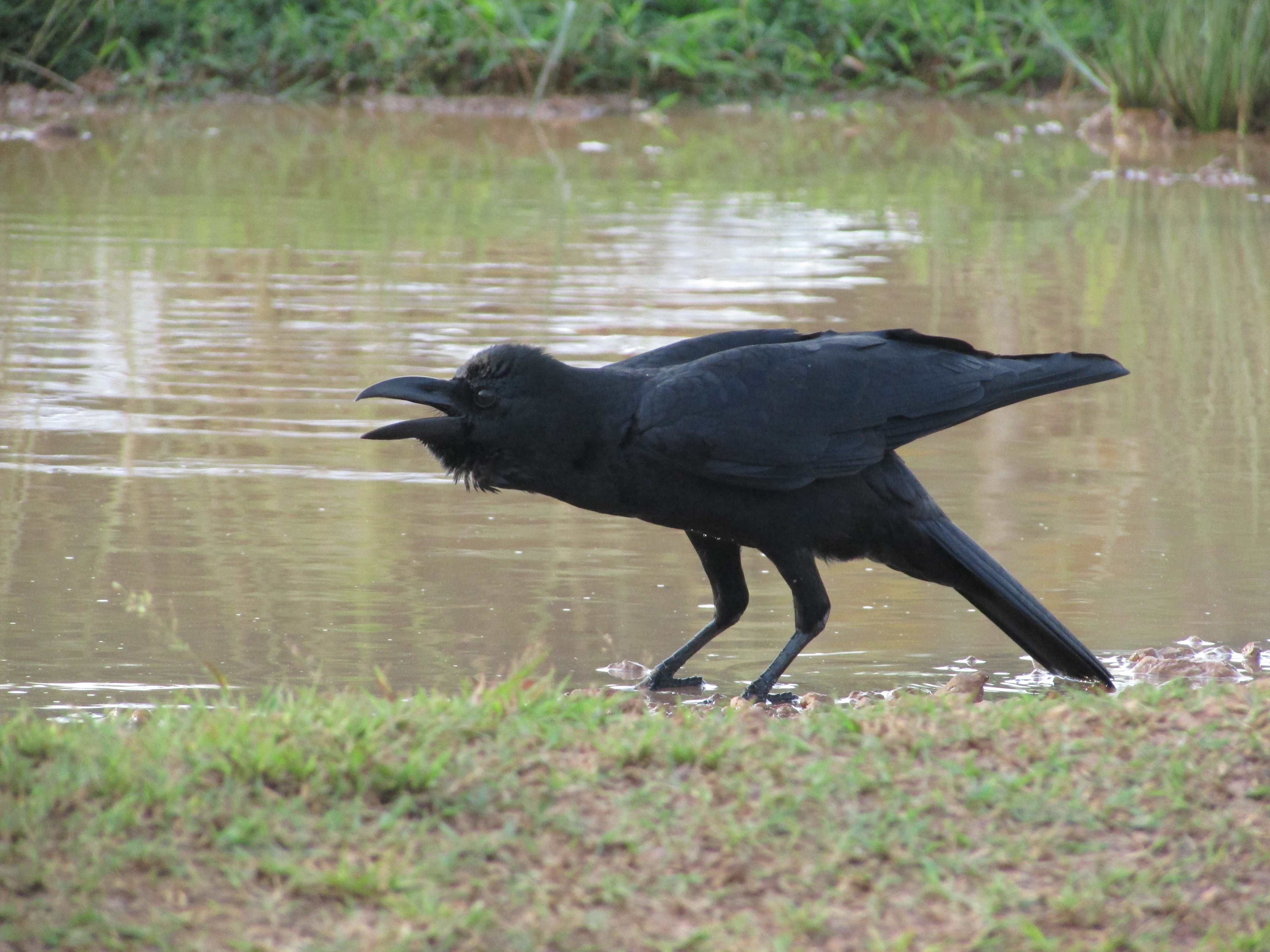 Indian Jungle Crow Corvus culminatus, Kerala